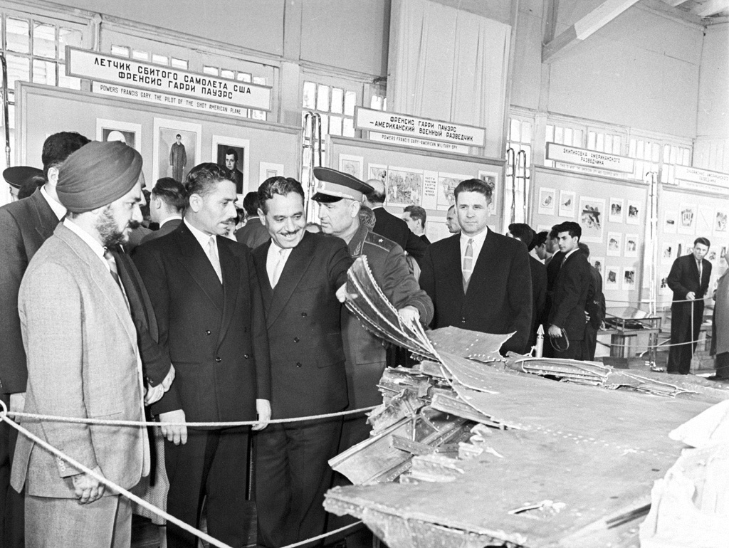 “Exhibition of remains of U.S. U-2 spy-in-the-sky aircraft”. Military attaches of foreign embassies visiting the exhibition of remains of U.S. U-2 spy-in-the-sky aircraft destroyed on may 1, 1960 near Sverdlovsk (currently Yekaterinburg). Gorky Central Park of Culture and Leisure.